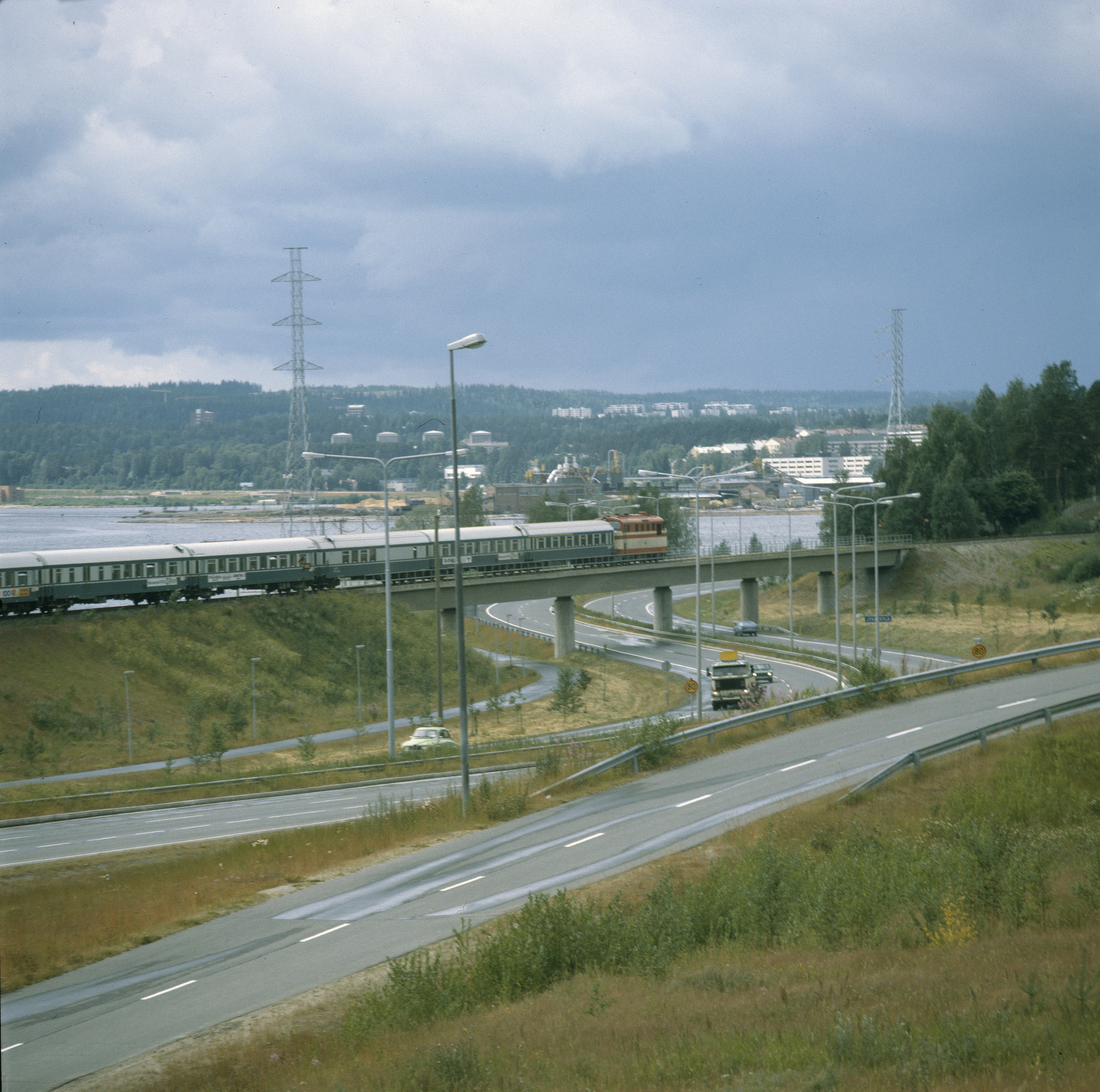 Jyväskylä–Vaajakoski motorway on the main road 9/E80 (now 4/E75, 9/E63, 13, 23) and a passenger train hauled by a VR Class Dr12 diesel locomotive on Jyväskylä–Pieksämäki railway in 1982.